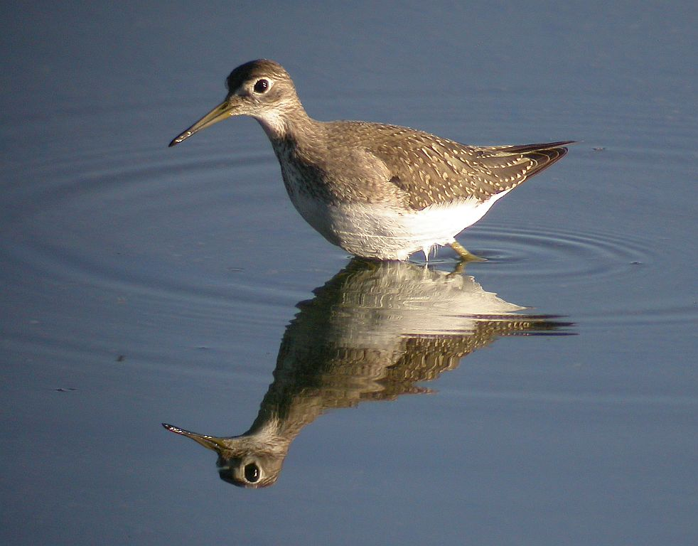 Solitary Sandpiper (Tringa solitaria). The white belly almost ruined the photo, but not quite. Near Mono Lake, California. The amazing thing about this day was that there were 5 Solitary Sandpipers feeding here, in close proximity. Not very solitary, this group. Note how the light reflects off the ripples and cause horizontal lines on the belly.